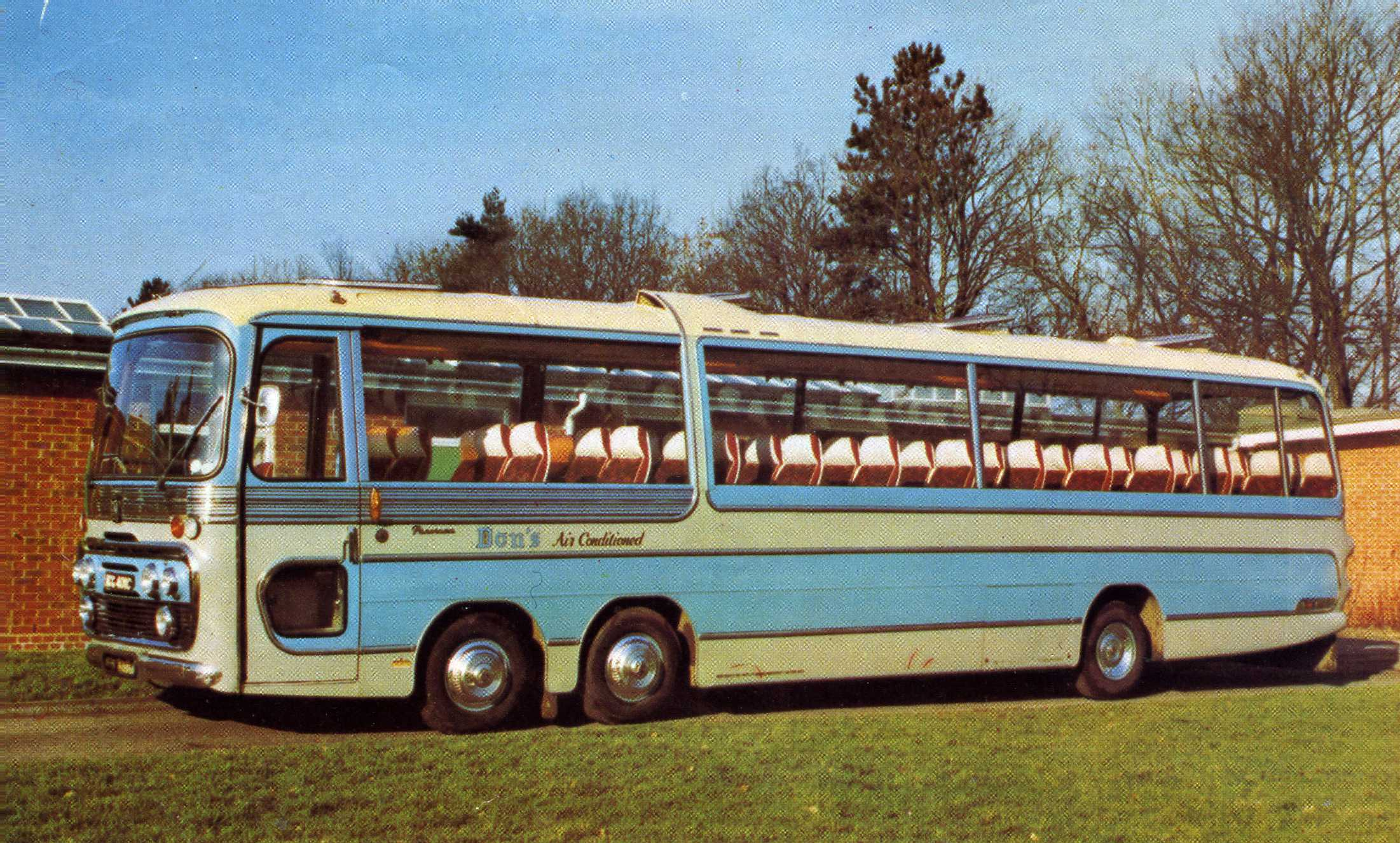 The depicted coach is ACG401C, a Plaxton bodied Bedford VAL14, new to Coliseum of Southampton. This coach is a 51 seater with no courier place behind the door.